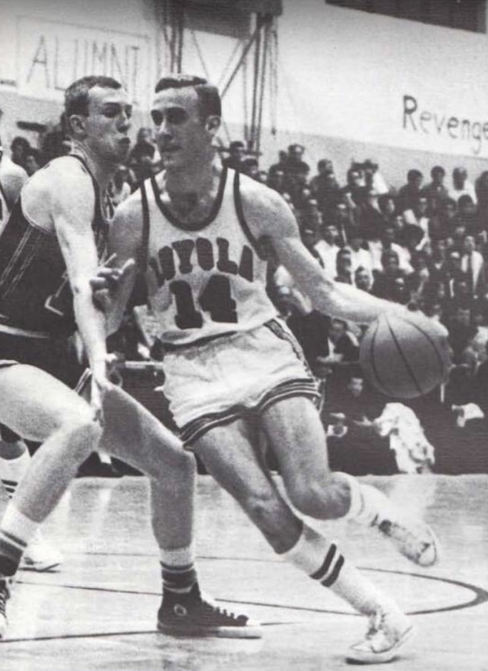 Loyola University of Los Angeles basketball player Rick Adelman from the 1968 “University Year” yearbook.